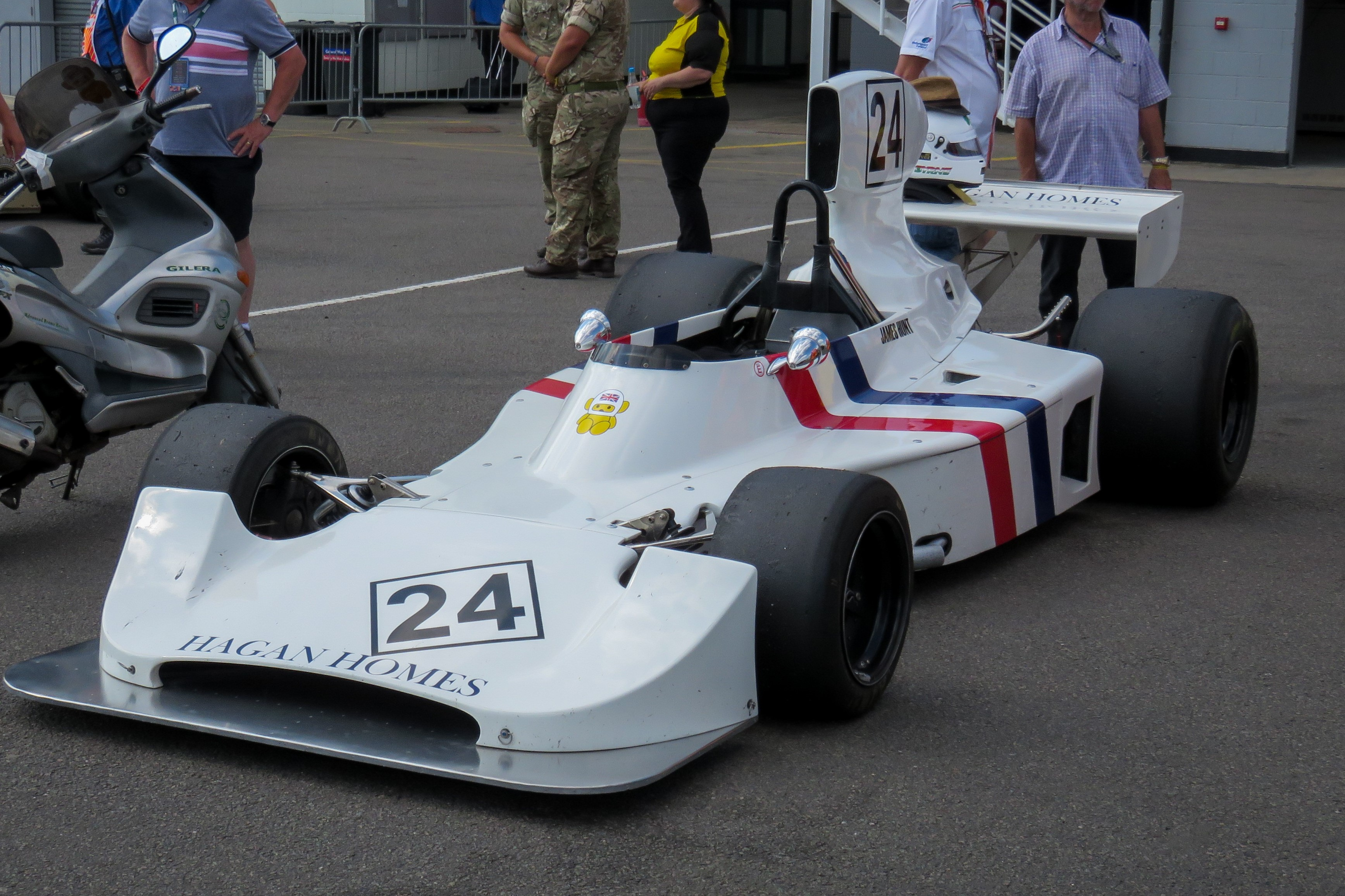 James Hunt Hesketh 308 2018 British Grand Prix.